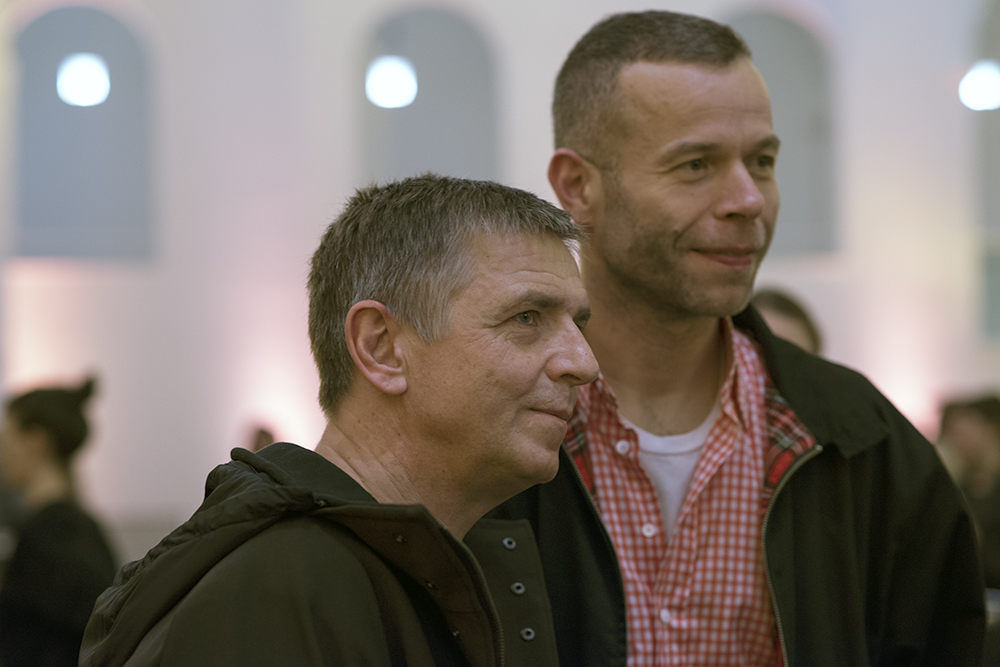 German photographer Andreas Gursky at museum K21, Düsseldorf (behind him photographer Wolfgang Tillmans)